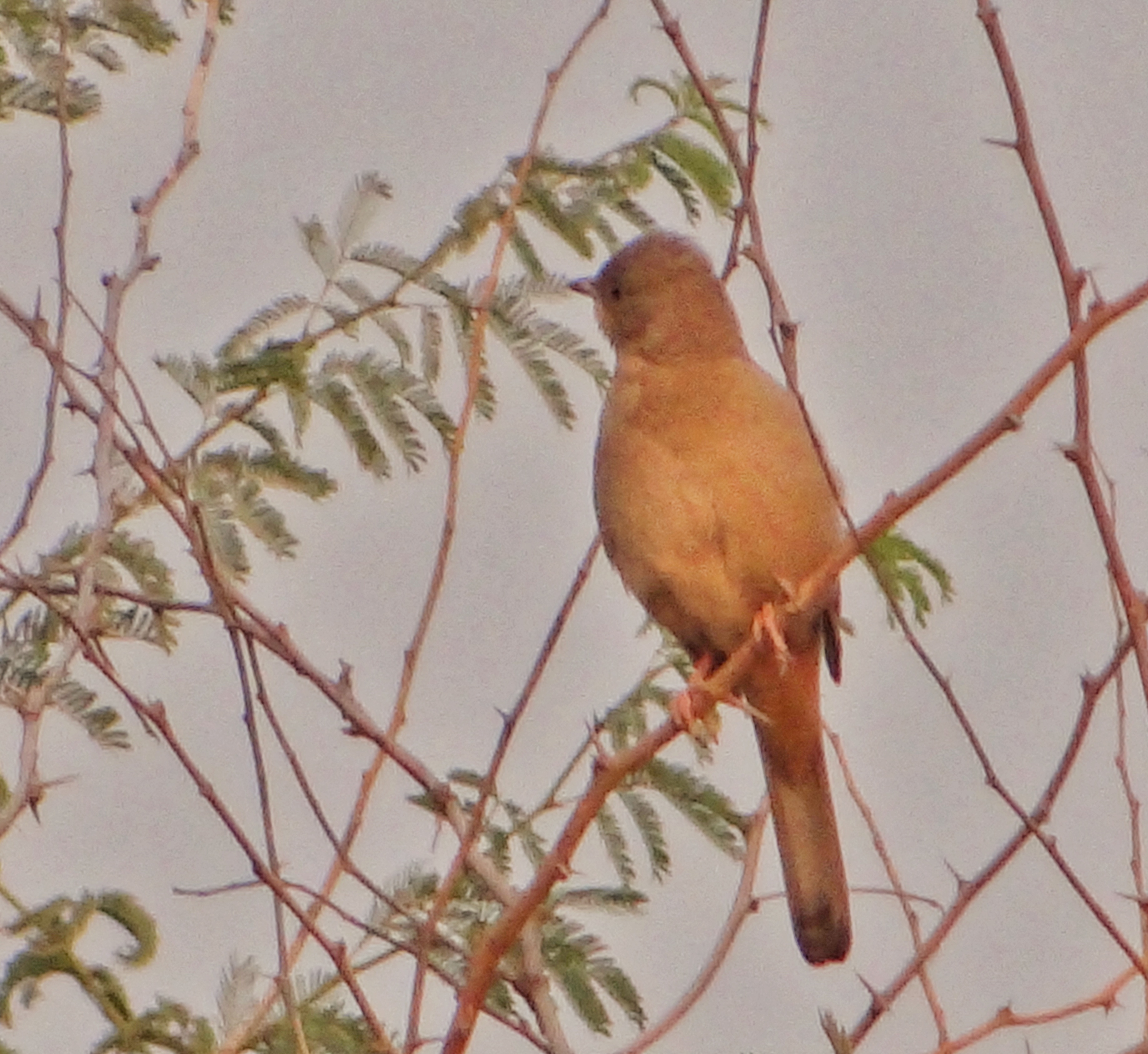 Sole member of the Genus Hypocolius